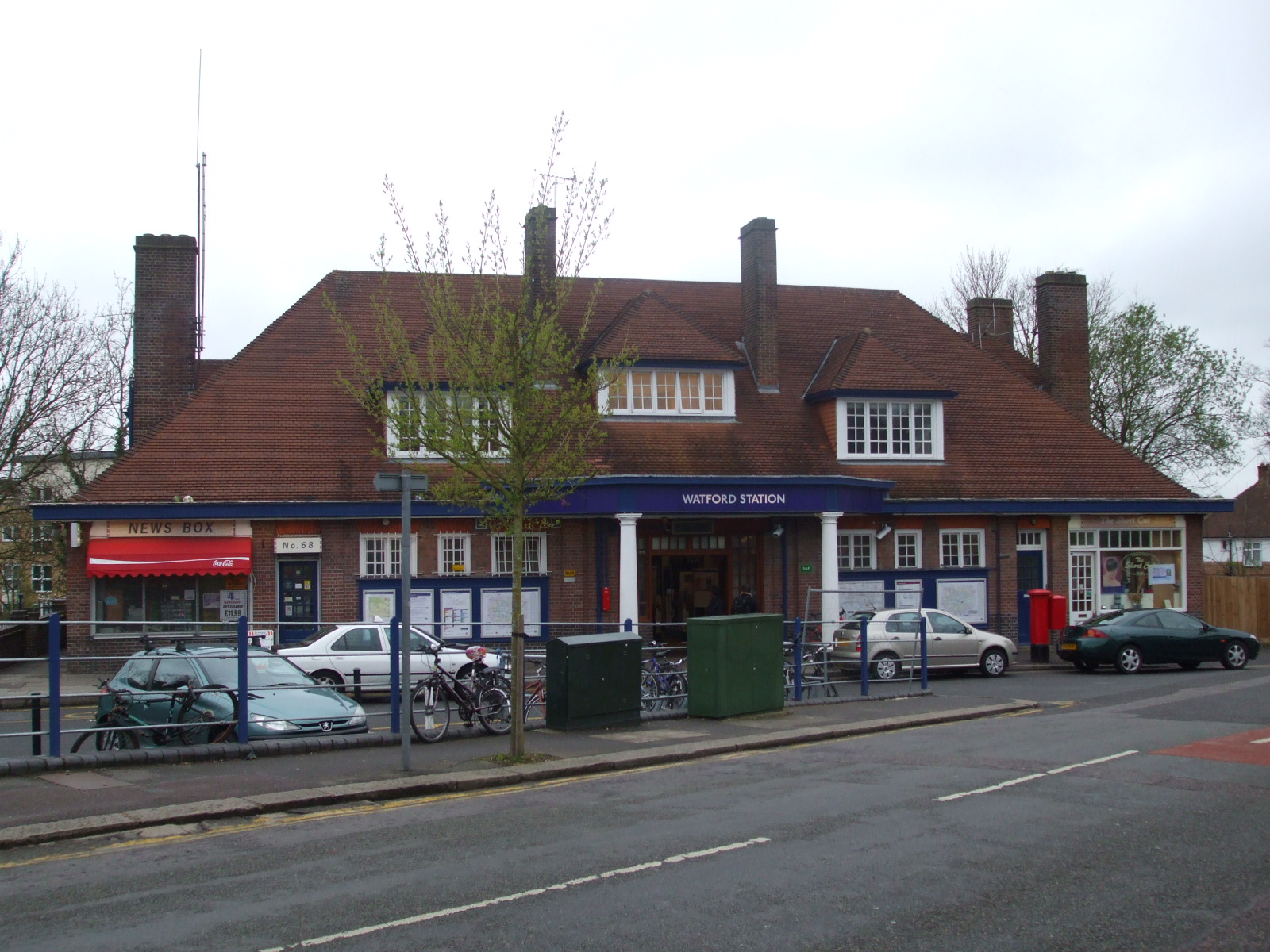 Watford tube station building